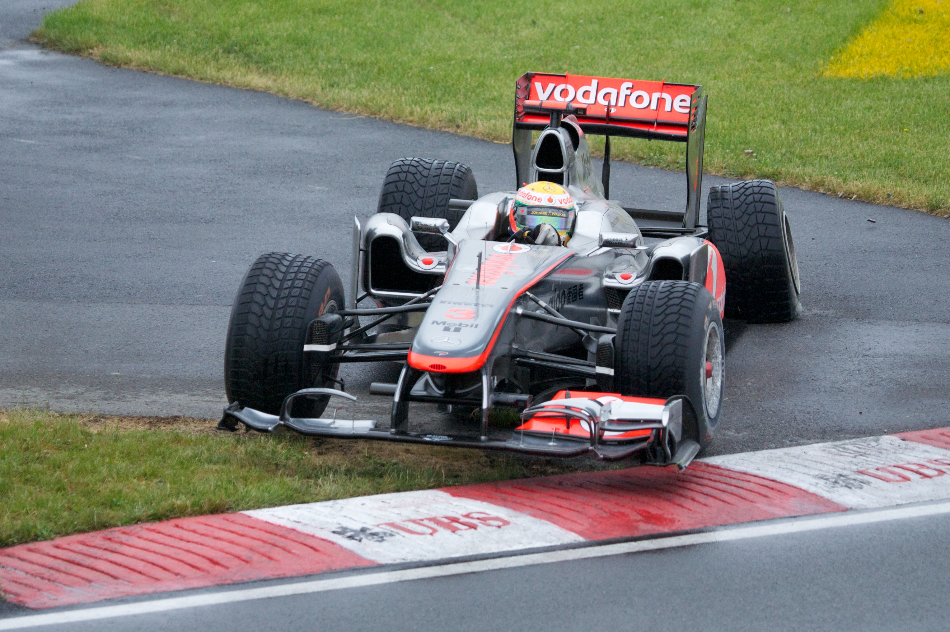 2011 Canadian Grand Prix